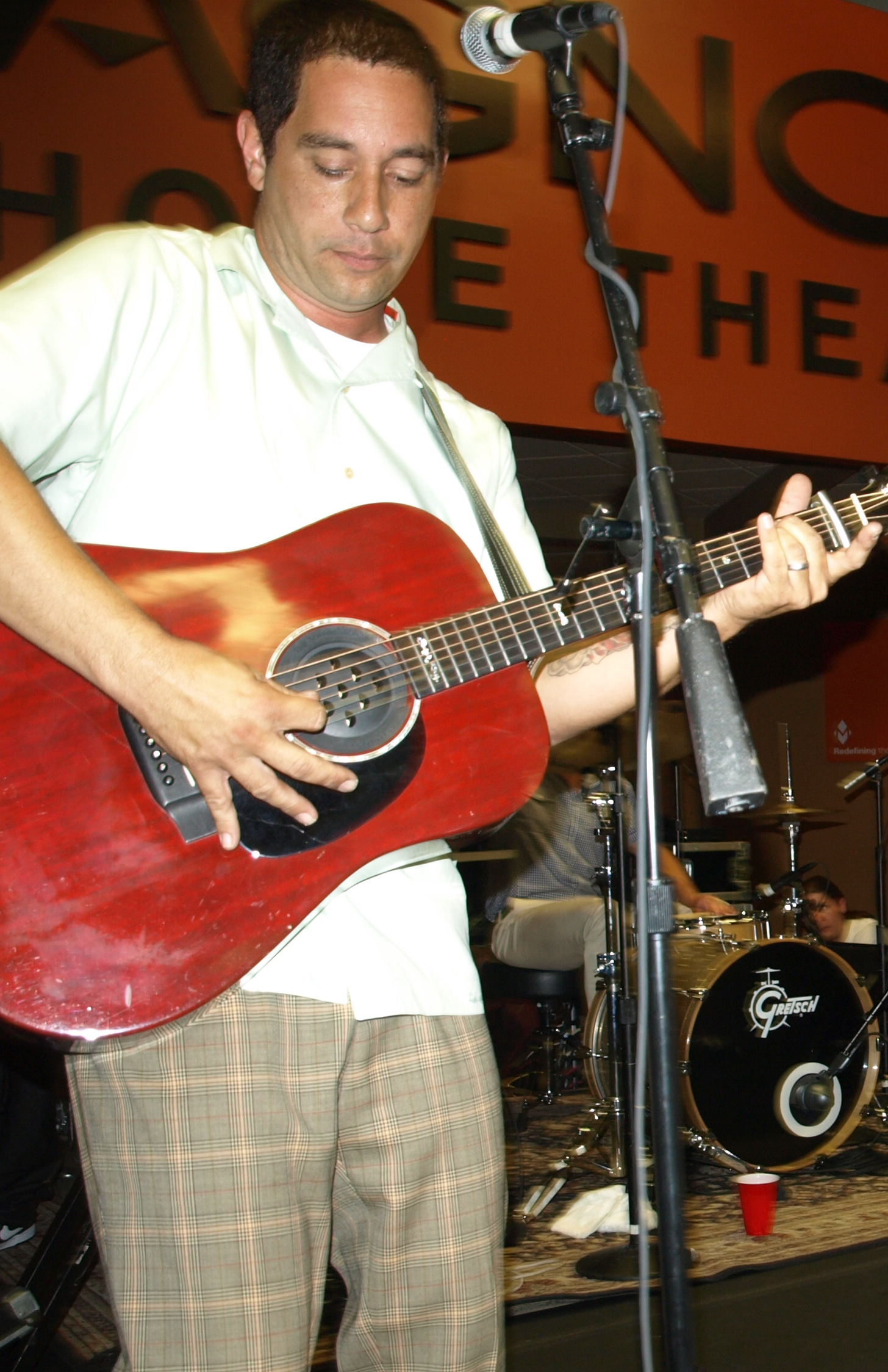 Rodney Sheppard on July 22, 2009 performing with Sugar Ray in West Los Angeles, CA.